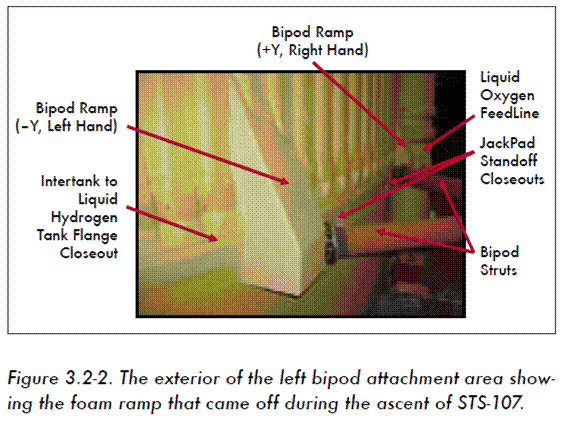 The exterior of the left bipod attachment area showing the foam ramp that came off during the ascent of STS-107